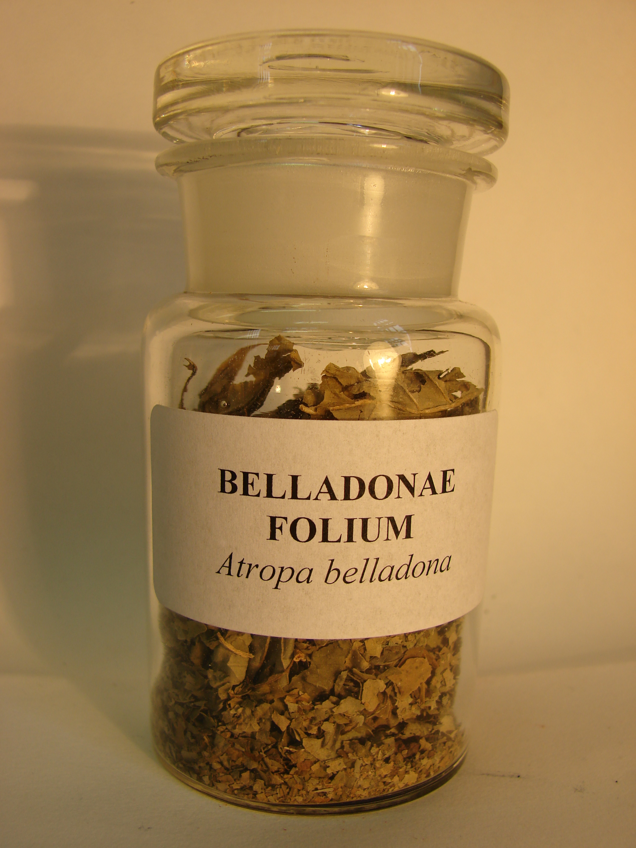 Belladonae folium, Atropa belladona